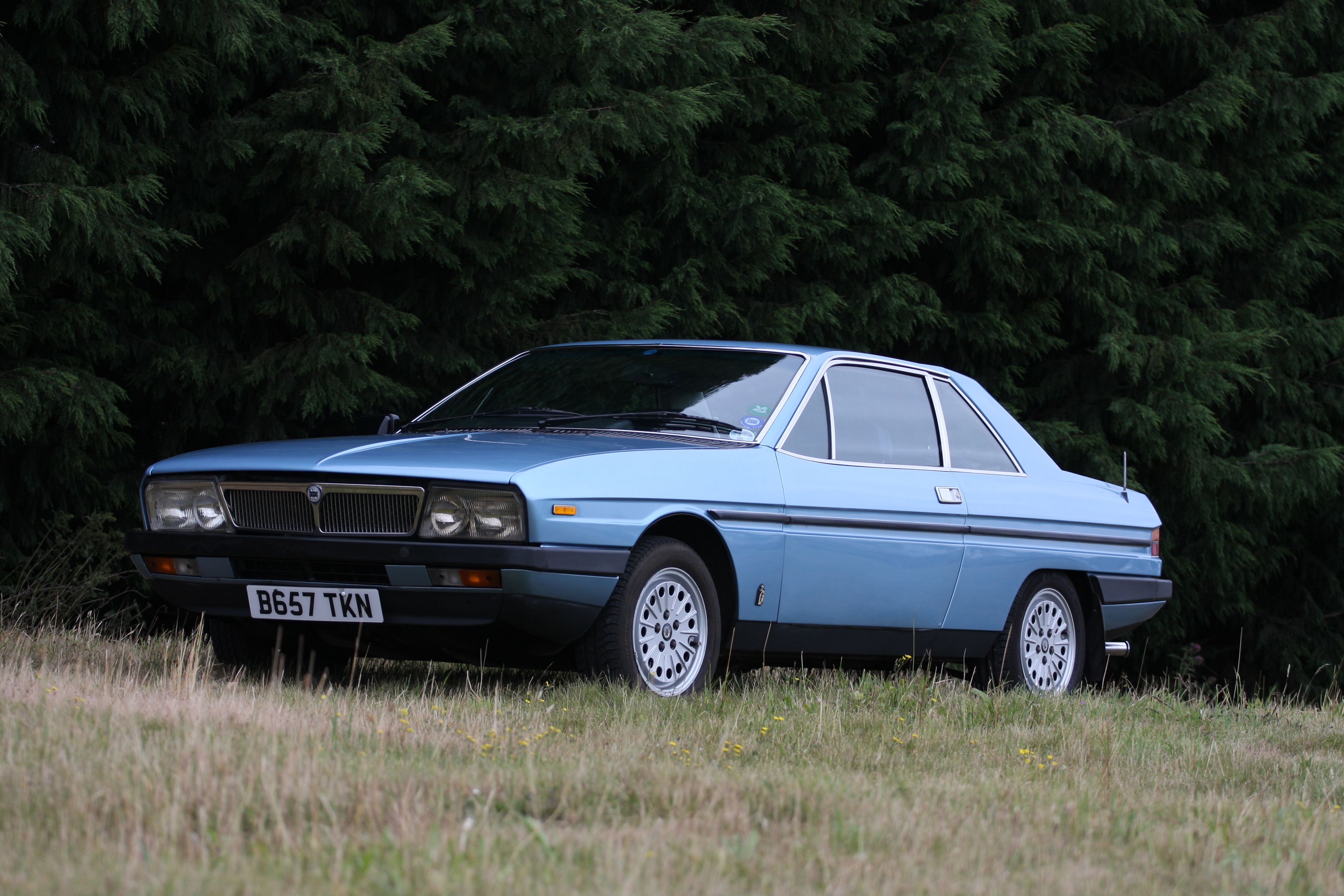 Lancia Motor Club AGM July 2010IMG_2397